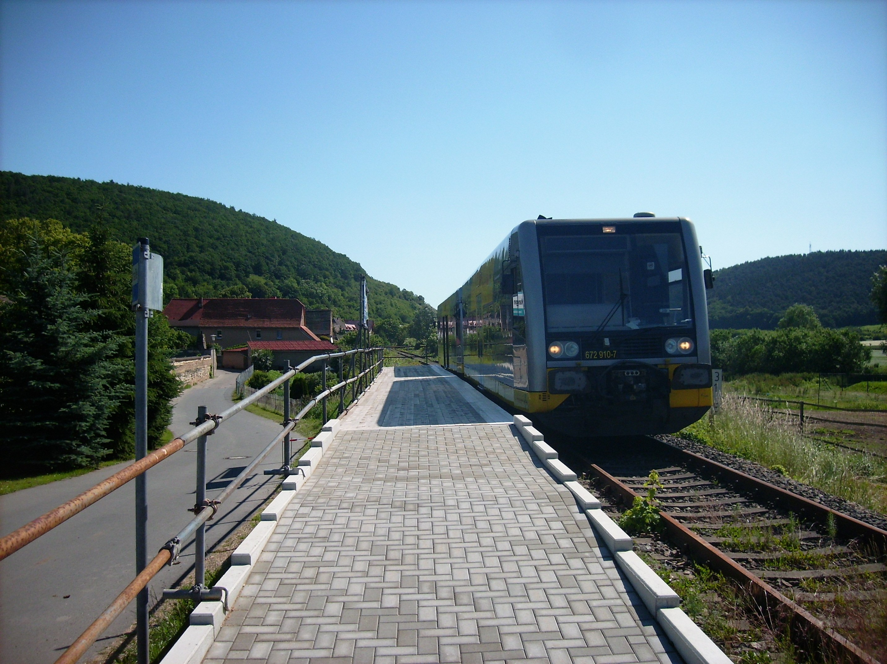 The train station of Wangen (Unstrut) with a train of the Burgenlandbahn company (Nebra, district of Burgenlandkreis, Saxony-Anhalt)